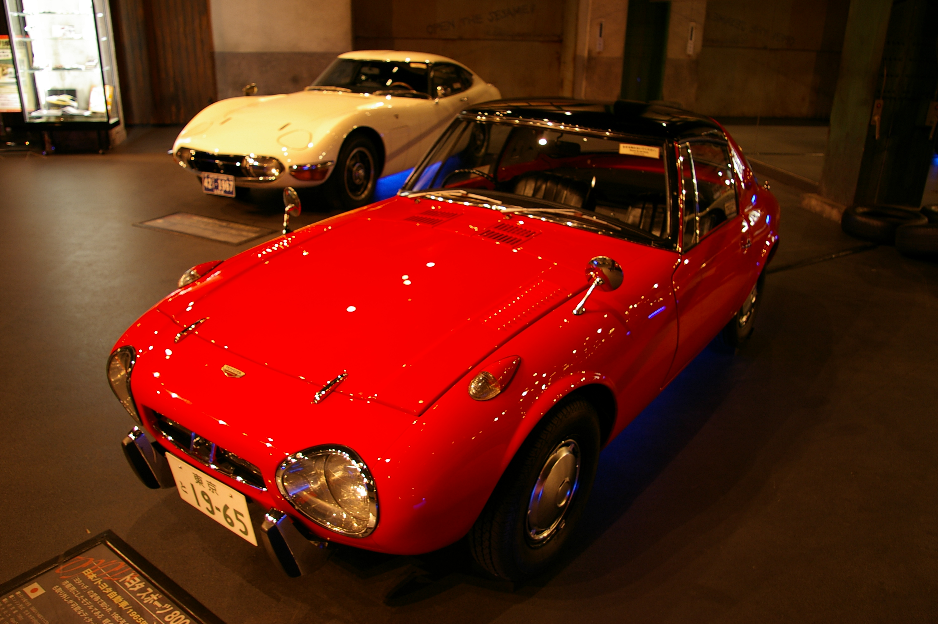 Photo by Yosemite. Toyota Sports 800 Model UP15 and Toyota 2000GT (Place is MEGAWEB in Japan.)